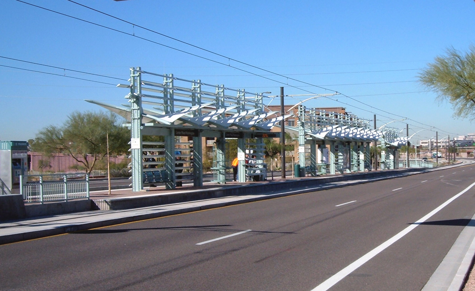 Photograph of the Center Parkway (or Washington at Center Parkway) Station of METRO Light Rail that serves the Phoenix area, Arizona, USA. This photograph was taken during the light rail's grand opening celebration on December 28, 2008.